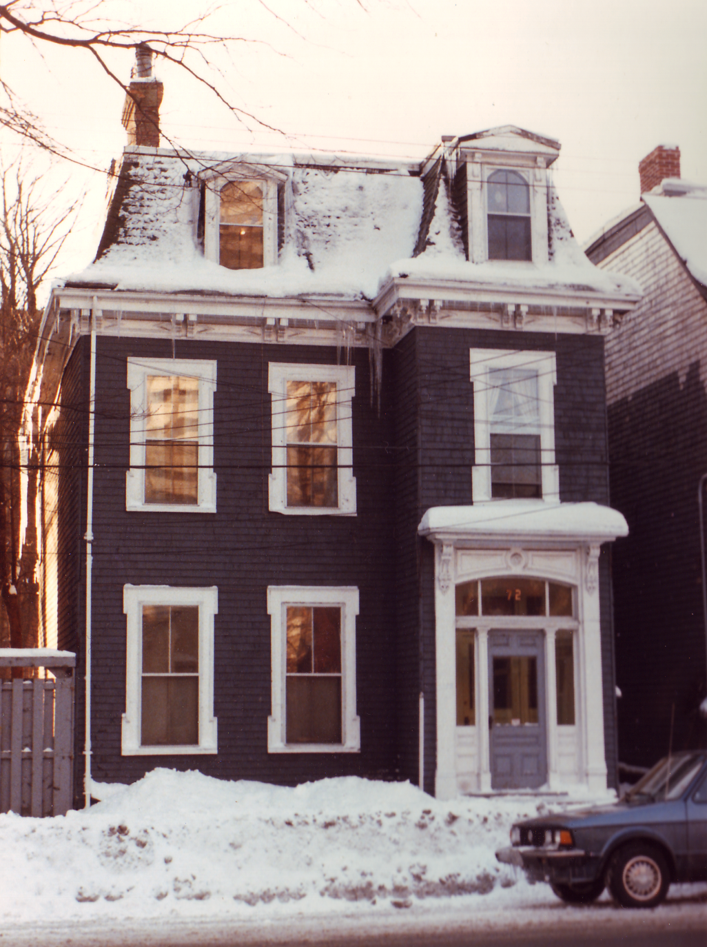 Former residence of James De Mille